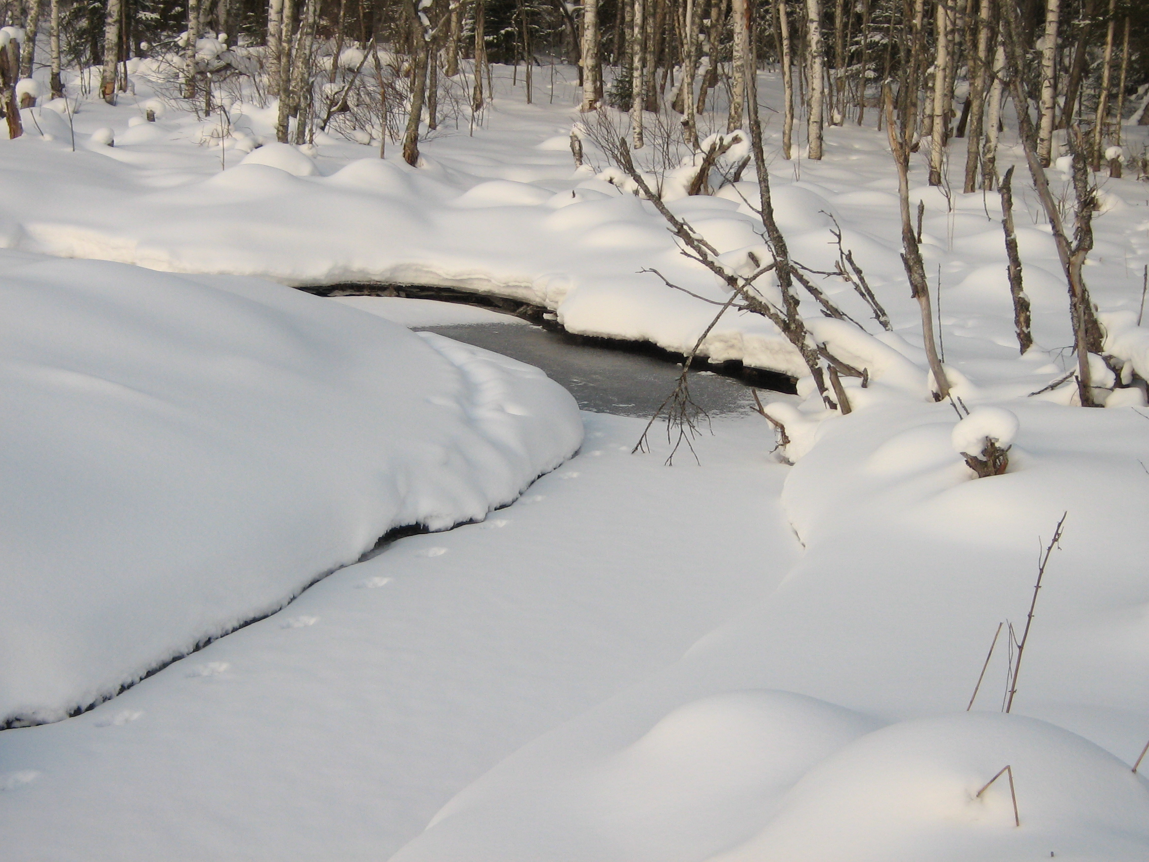 River Smorodinka (Leningrad oblast) under ice